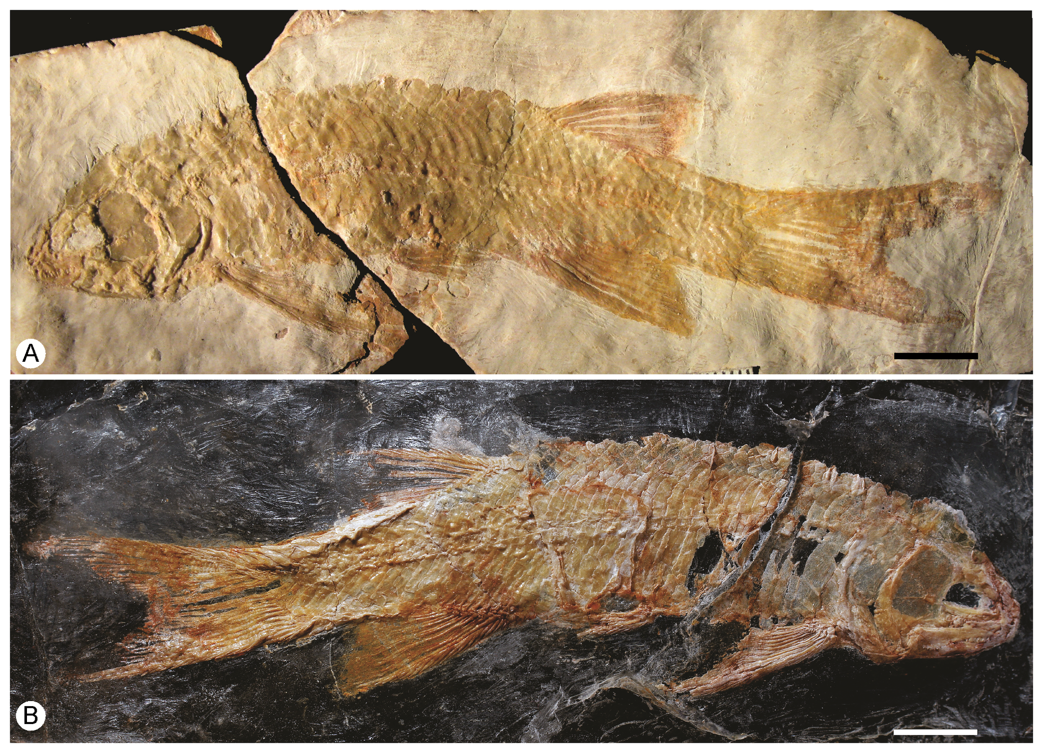 Cipactlichthys scutatus gen. et sp. nov. Holotype IGM.6605. A. Left side of a well-preserved complete skeleton before preparation. B. Right side of the same specimen after acid preparation. Scale bar equals 10 mm.